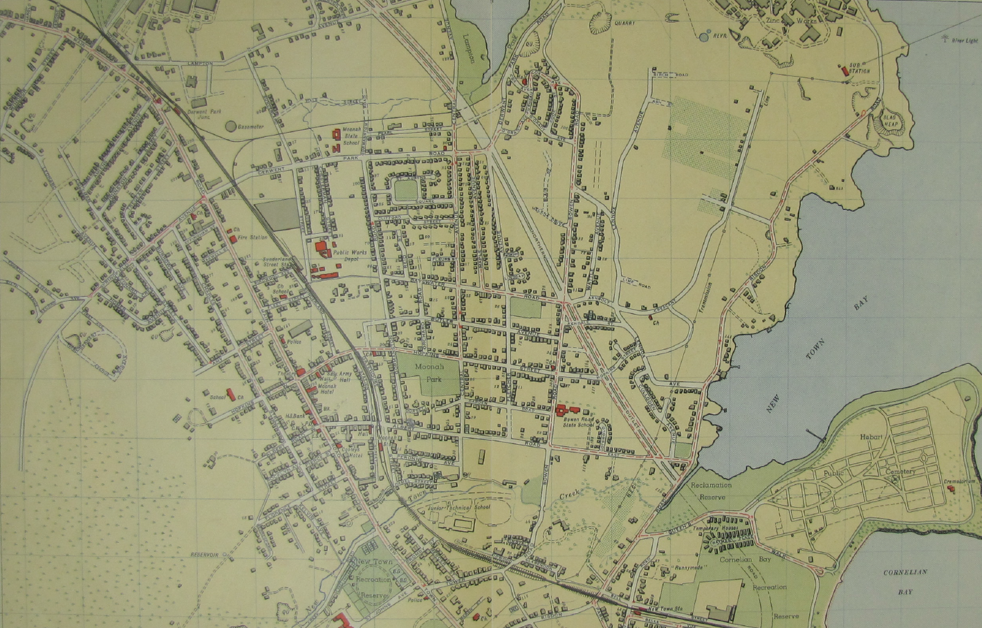 Maps 10-11 of Hobart aerial survey map (West Moonah, Moonah, Lutana)